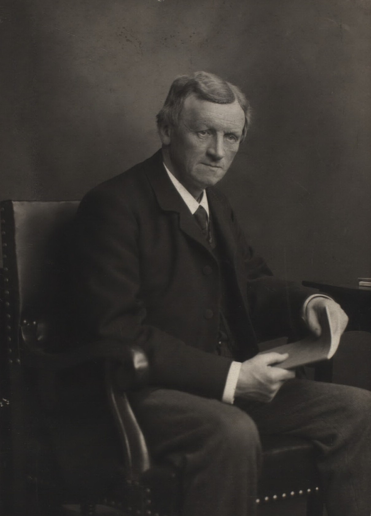 Danish businessman and Minister of Trade, Oscar Hakon Valdemar Bruun Muus (1847-1918)